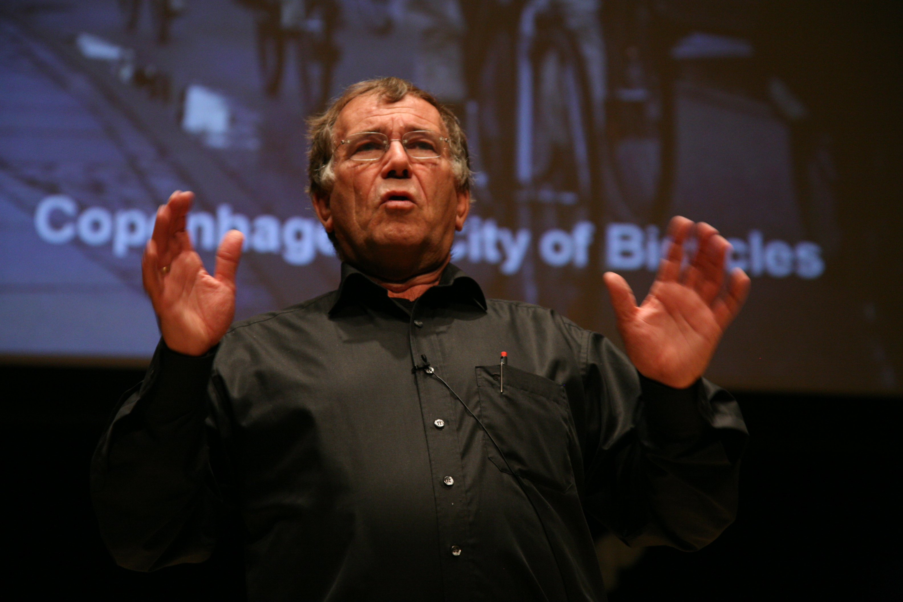 Danish urban planner Jan Gehl photographed in 2006